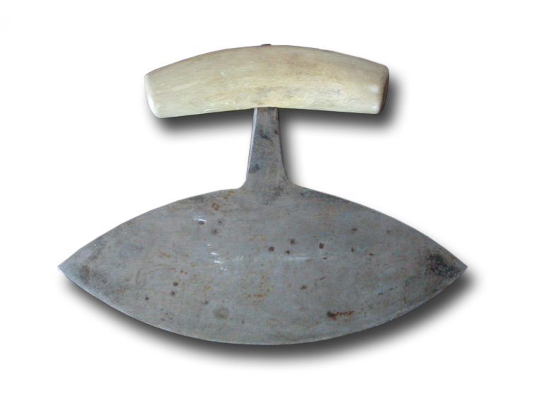 West Greenlandic Ulo